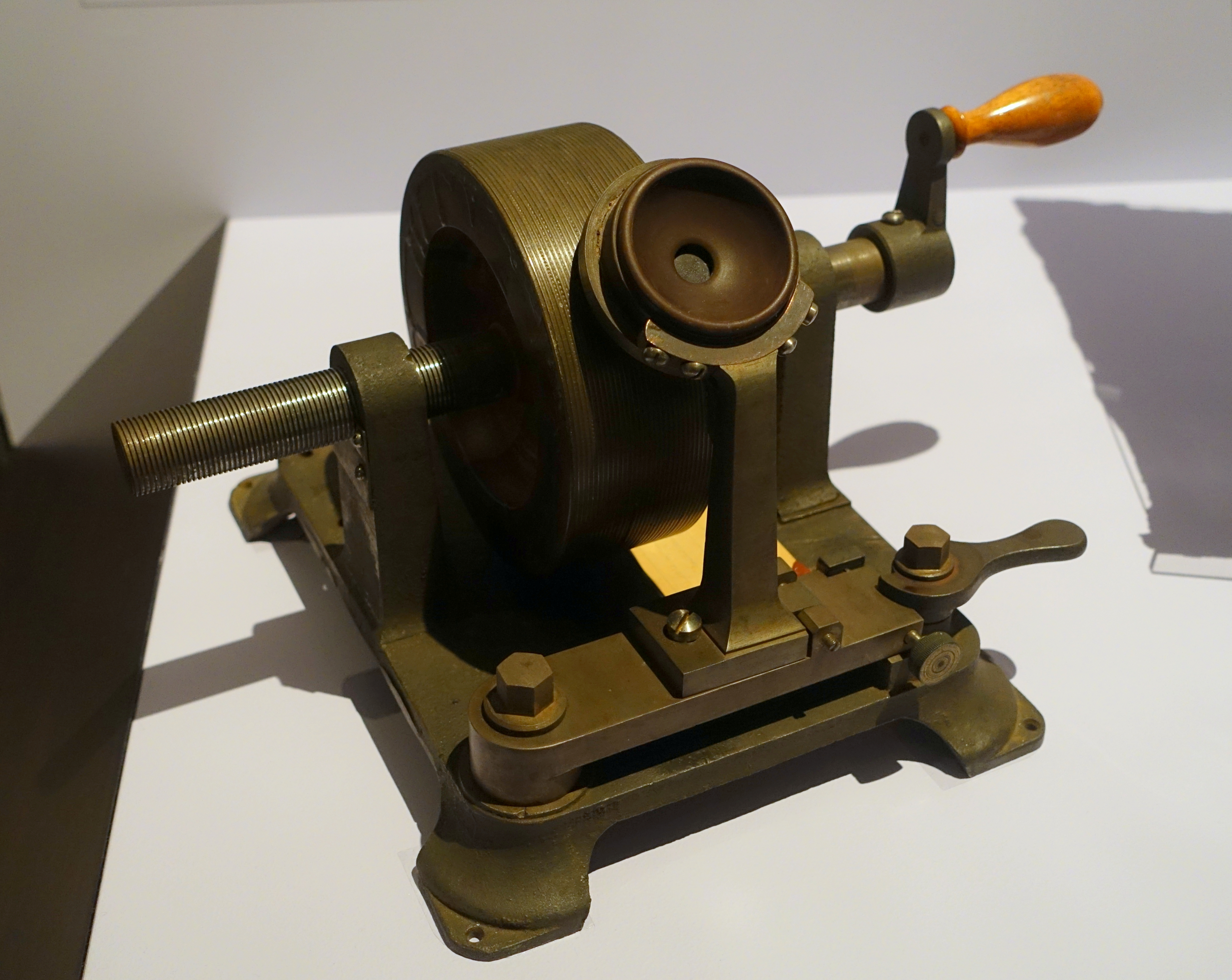 Exhibit in the National Museum of American History, Washington, DC, USA.